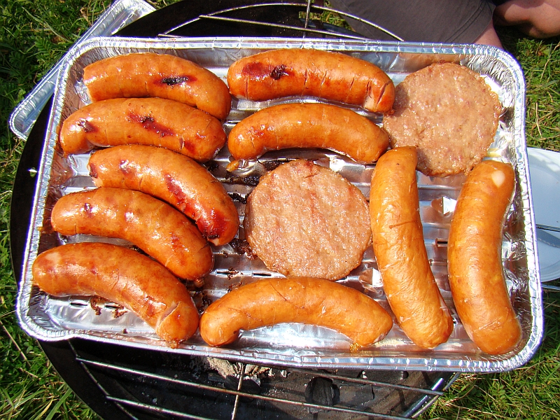 Grilling on the bank at San river, Sanok